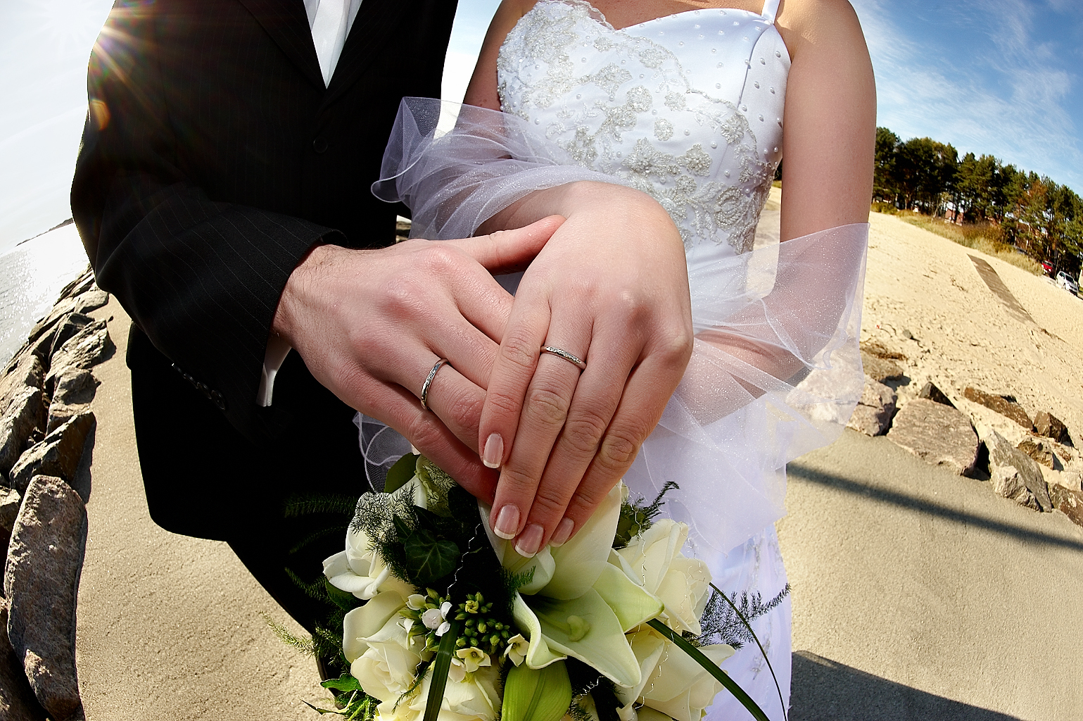 Taken with AF-D 16mm f/2.8 Fisheye-Nikkor, in Skedsmo.